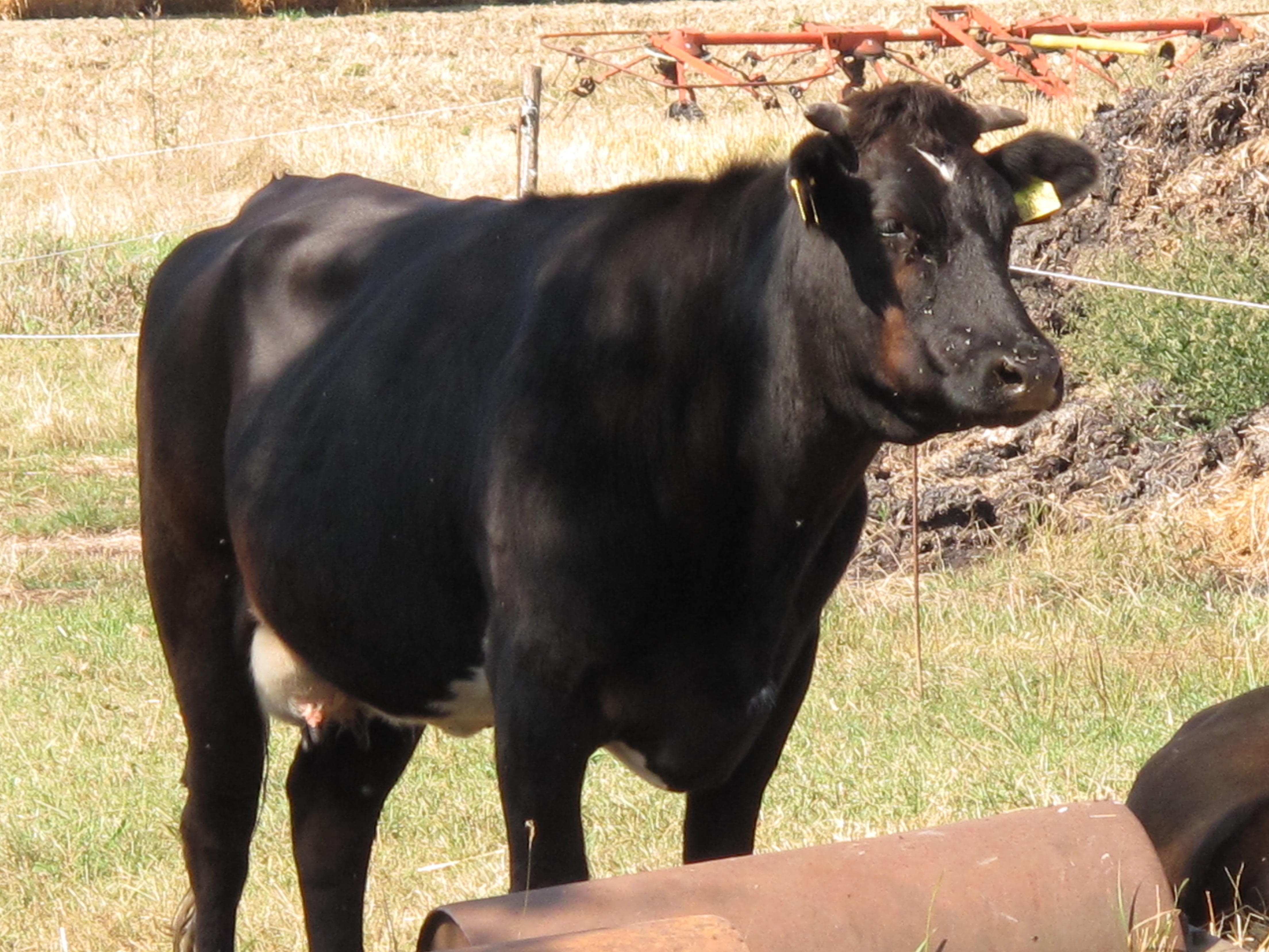 Unidentified cow in Vojníkov village, Písek District, Czech Republic.